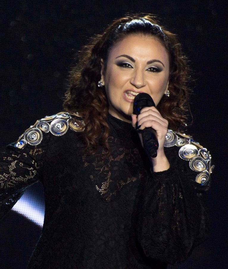 Eleanor Cassar at MESC2018